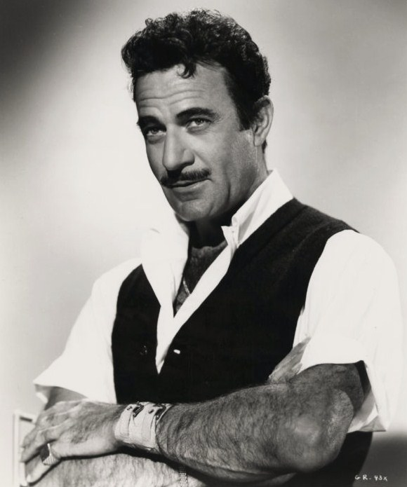 Gilbert Roland in The French Line (1954) - publicity still (cropped : see source).